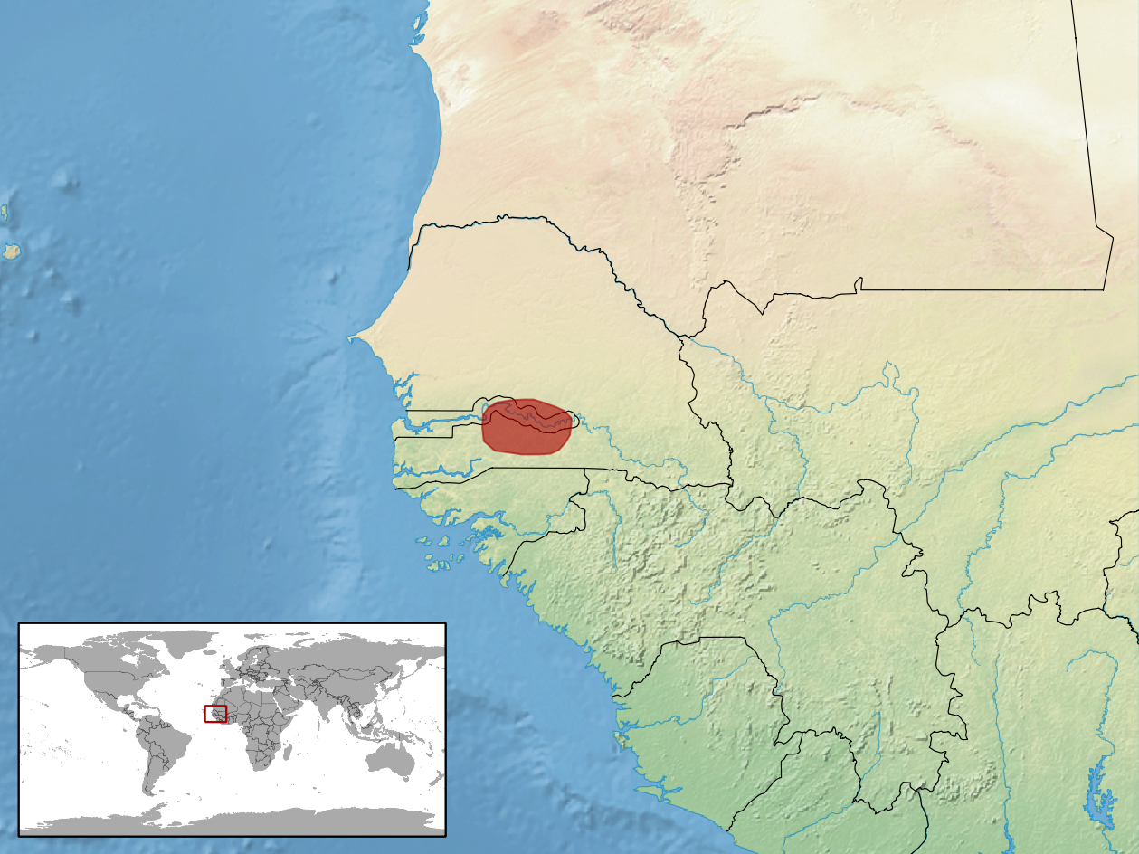 geographic distribution of Agama bocourti (Native: Gambia; Senegal)